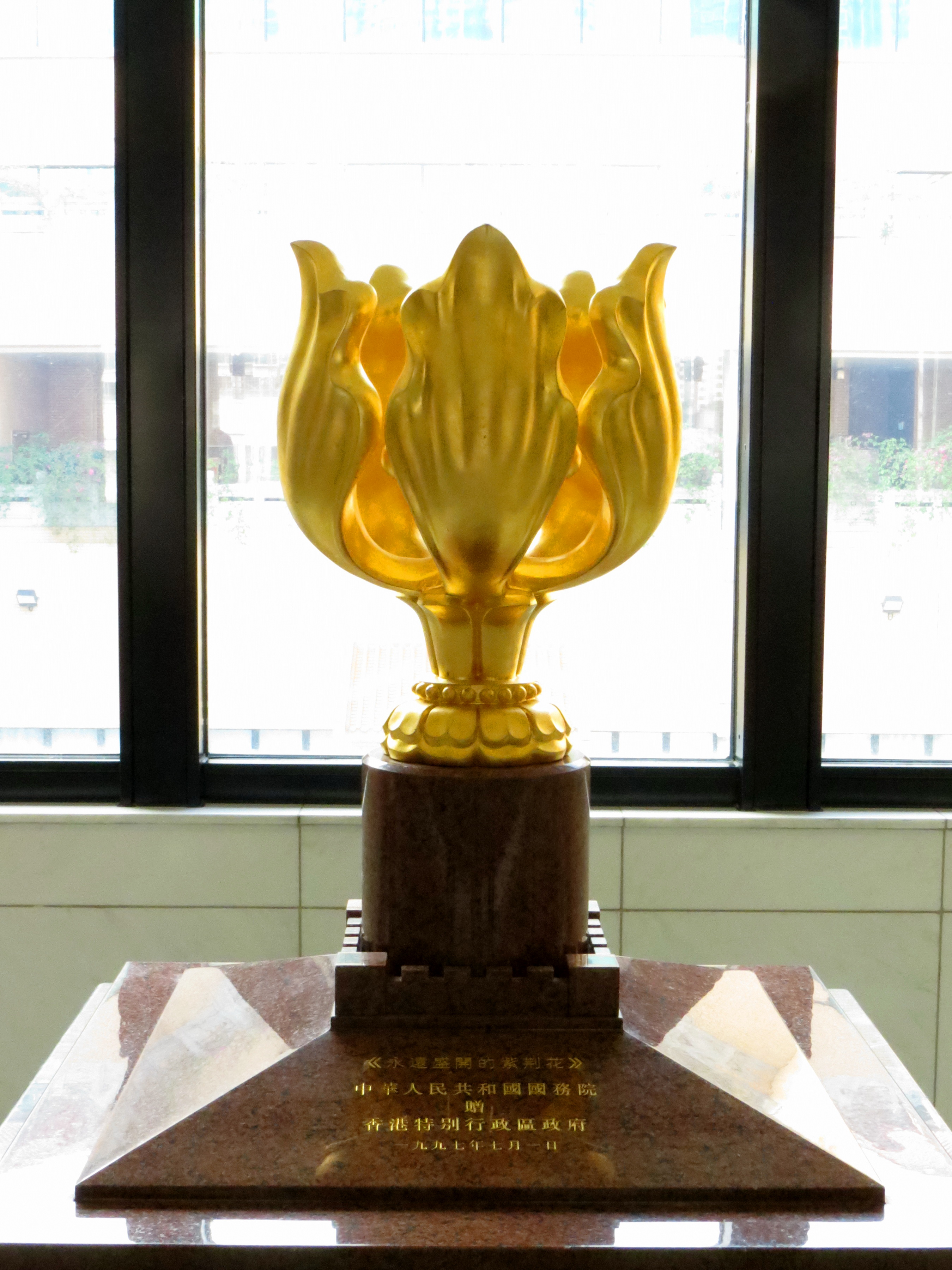 More Than Gifts: Highlights on the Gifts Commemorating Hong Kong’s Return to China. "The Forever Blooming Bauhinia" Sculpture at the Hong Kong Heritage Museum.